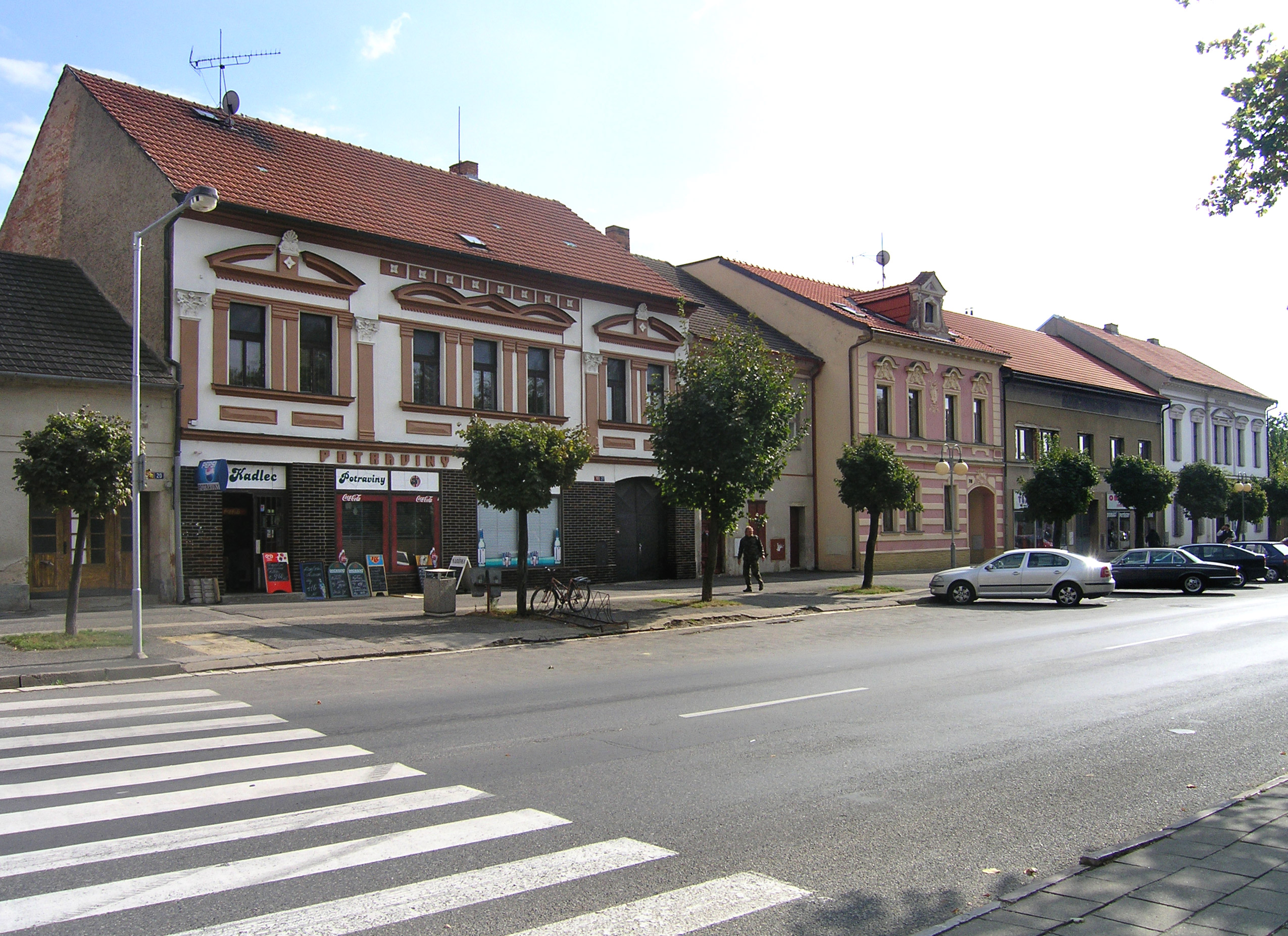 Houses at Komenského square in Kostelec nad Labem, Czech Republic